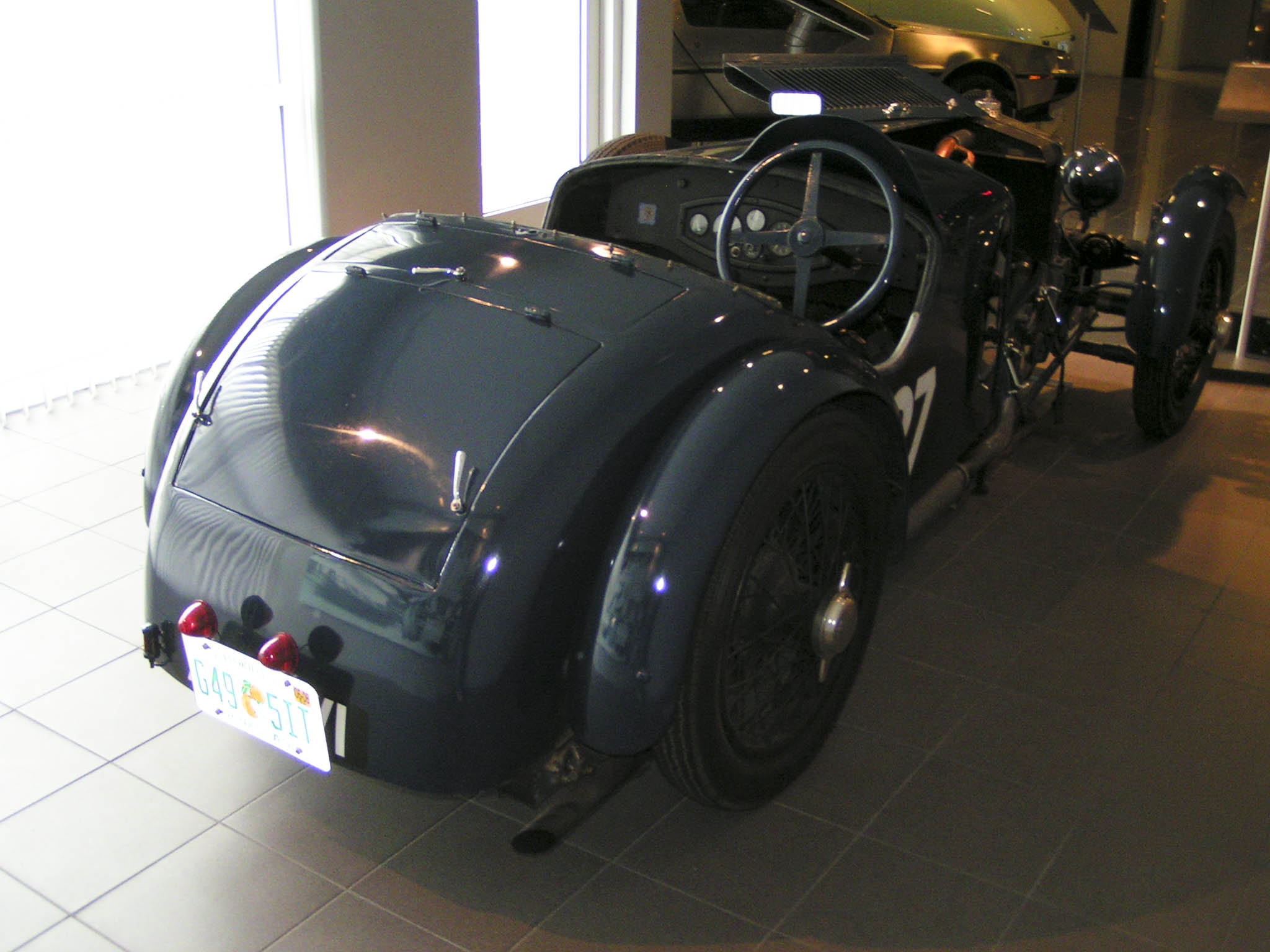 1929 Tracta A This car placed first in its class and amazingly with only 995cc seventh overall in the 1929 Le Mans race. This car is original with the exception of a new coat of paint.1929 Tracta A